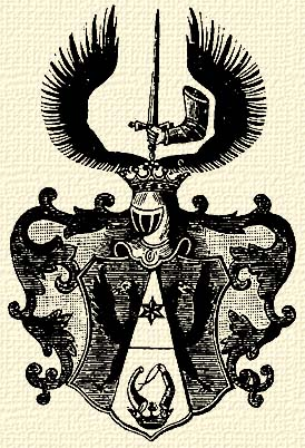 COA of Pongrácz Szentmiklósi és Óvári family